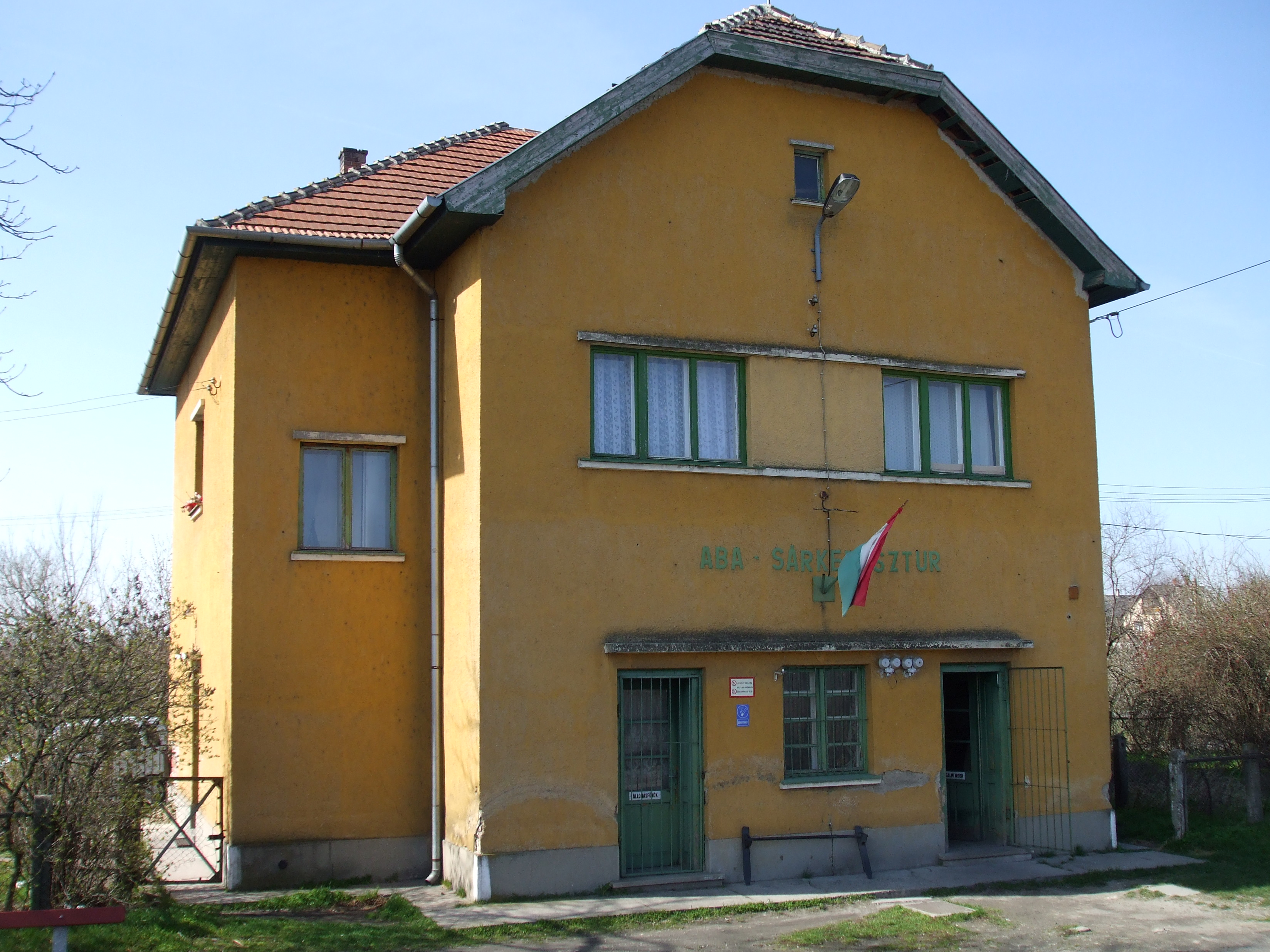 Aba-Sárkeresztúr railway station on the Sárbogárd–Székesfehérvár line in Fejér County, Hungary